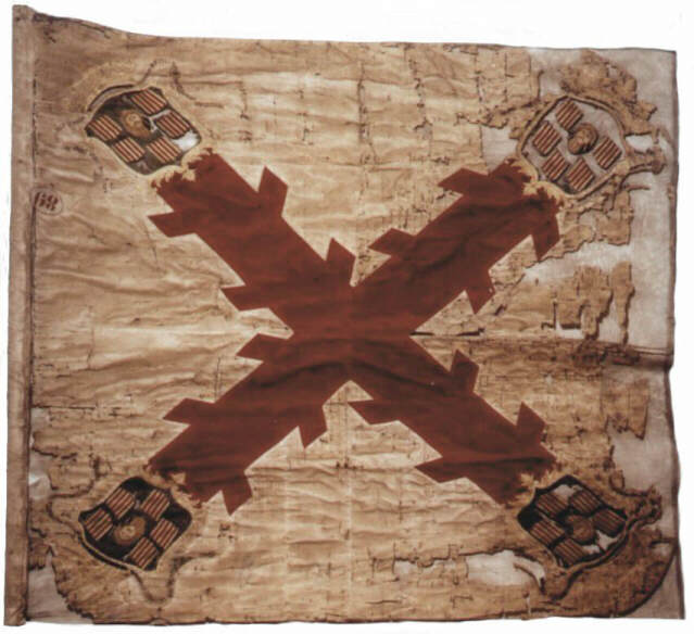 Second flag of the Barbastro regiment of the Spanish Army, 1808